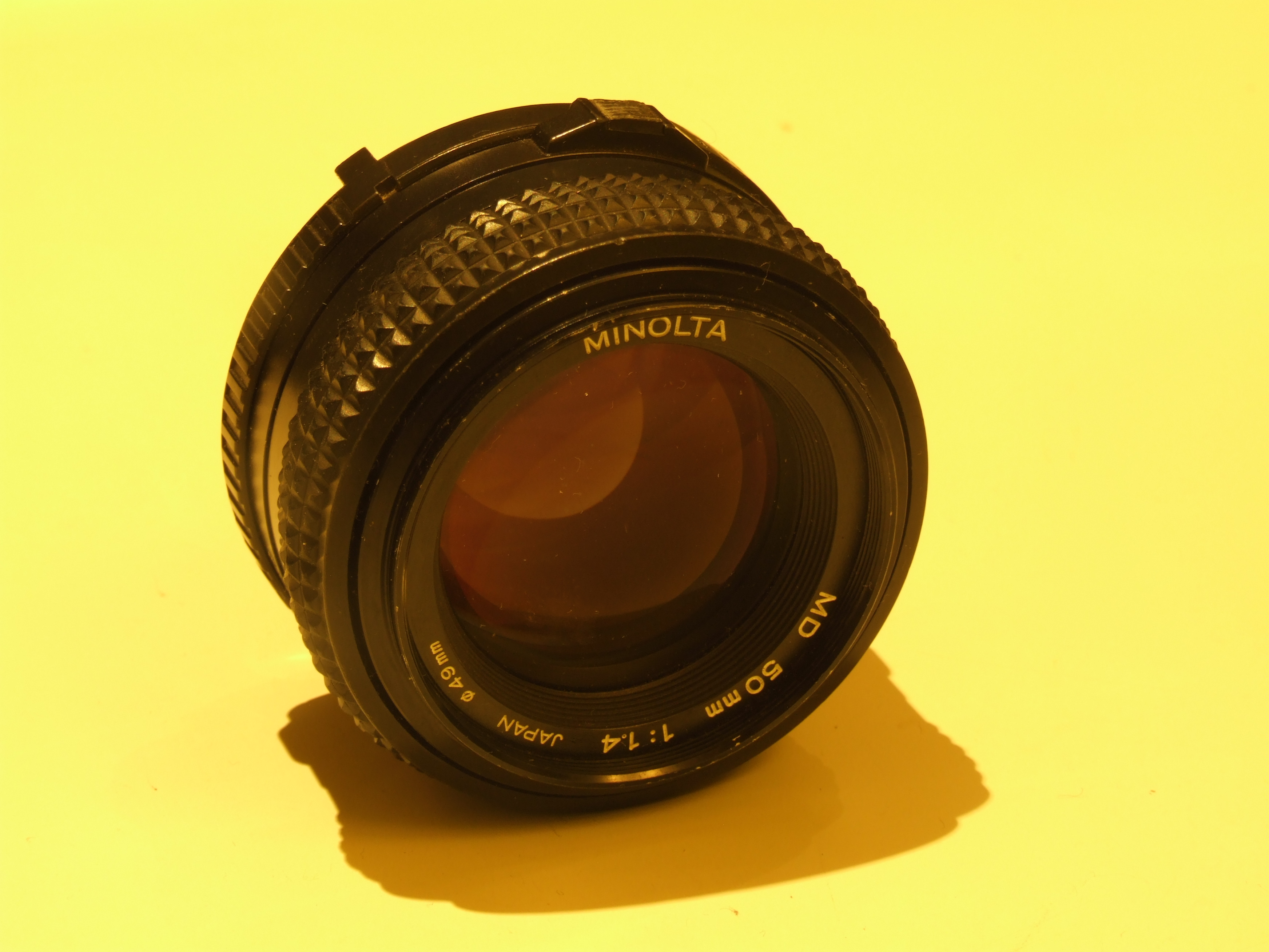 A Minolta MD 50 mm f/1.4 lens